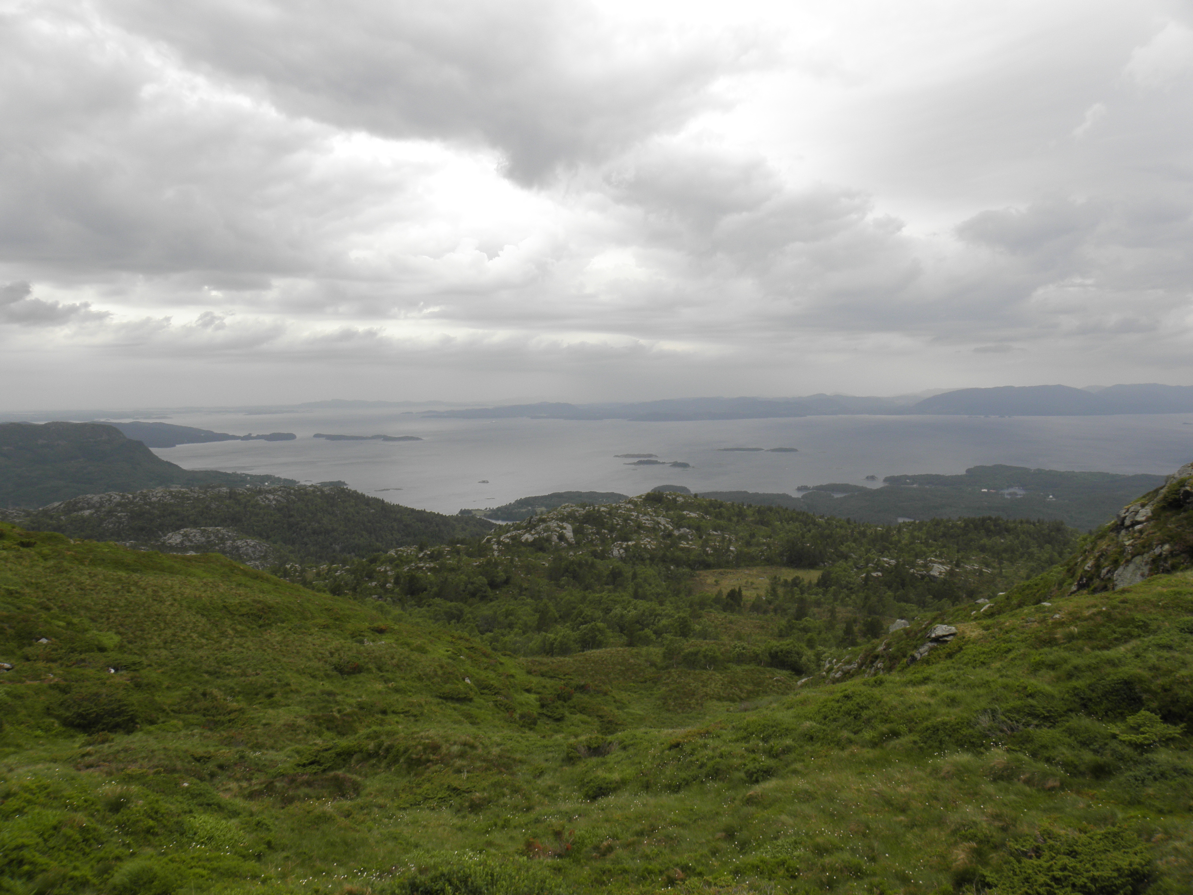 A view from the northern parts of Tysnesøy in Hordaland, Norway. The view is to the north, showing among other things Bjørnafjorden. To the mid-left, mostly obstructed, lies Våge.